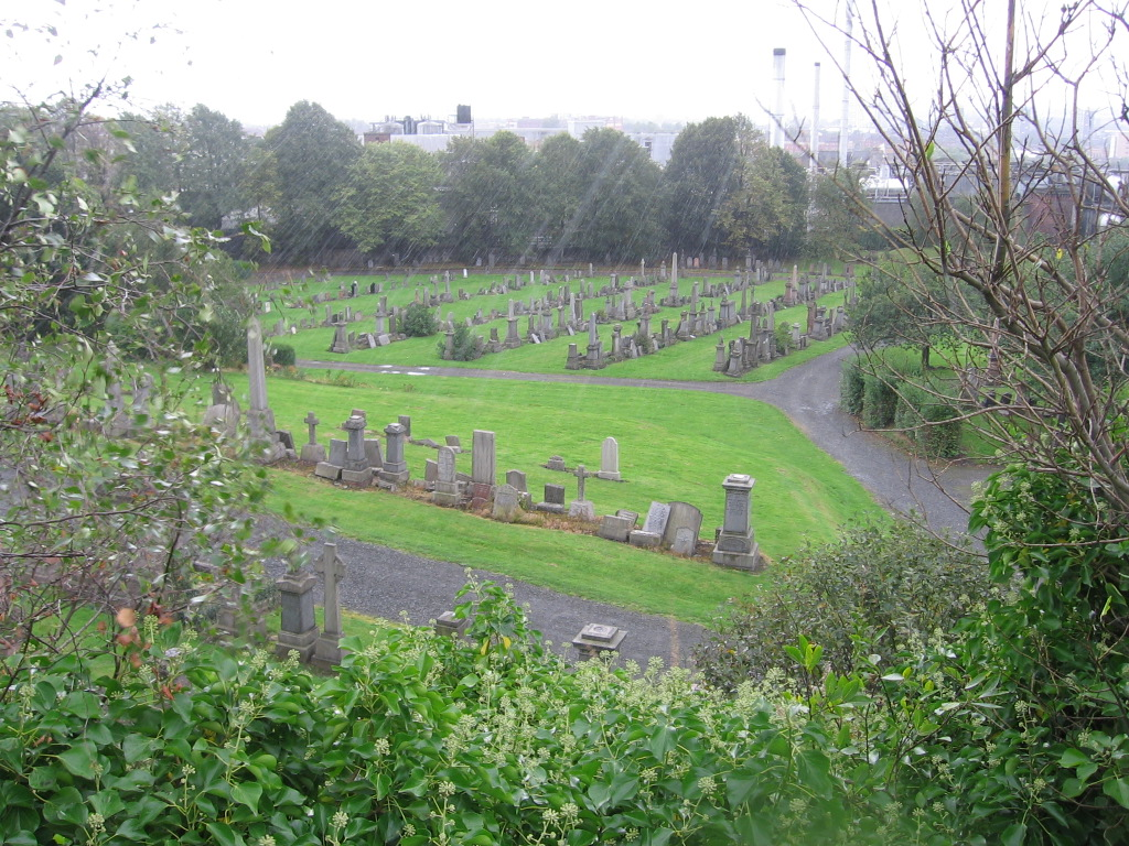 Rain at Glasgow Necropolis